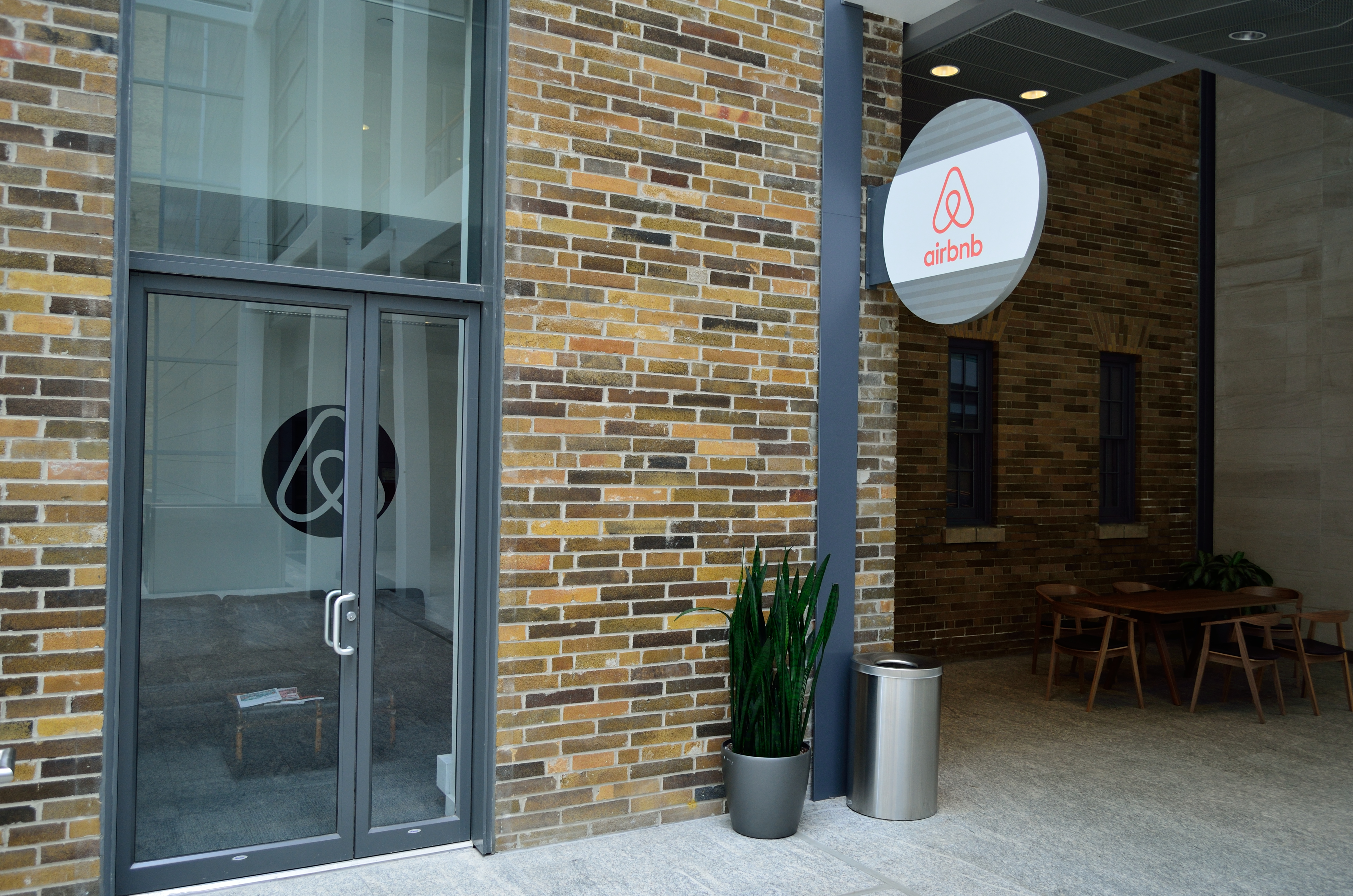 An Airbnb office in Toronto